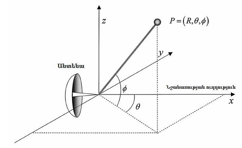 Թիրախի դիրքի որոշումը գնդային կոորդինատական համակարգում